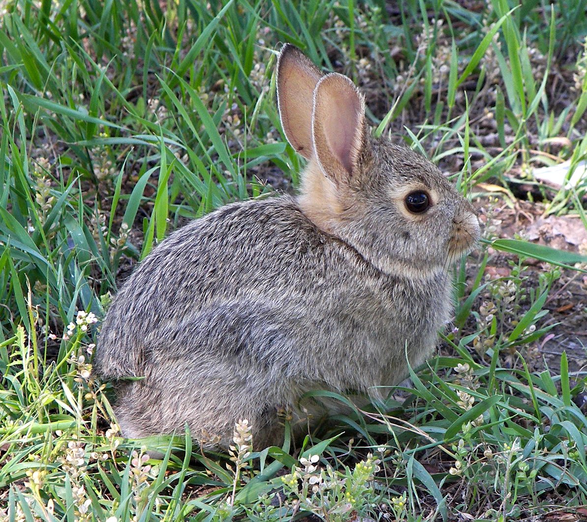 A rabbit (A cottontail, I think) posing on the grounds of Pompey's Pillar National Monument.